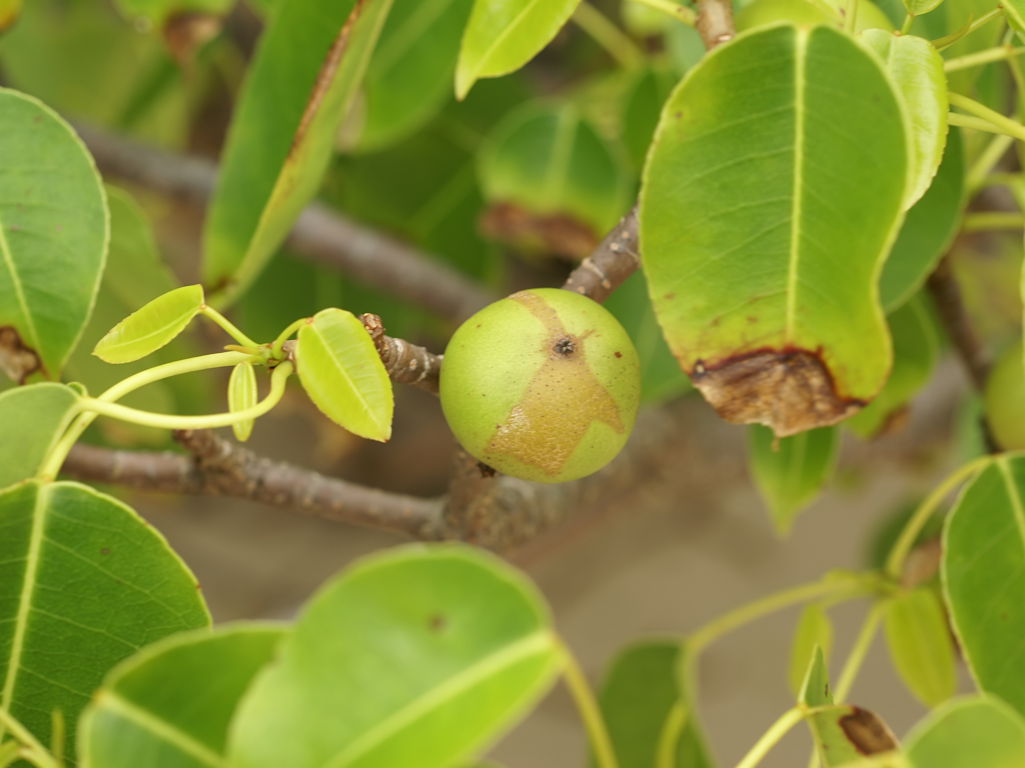 Manchineel fruit and foliage at Cabo Blanca, Nicoya Peninsula, Costa Rica.